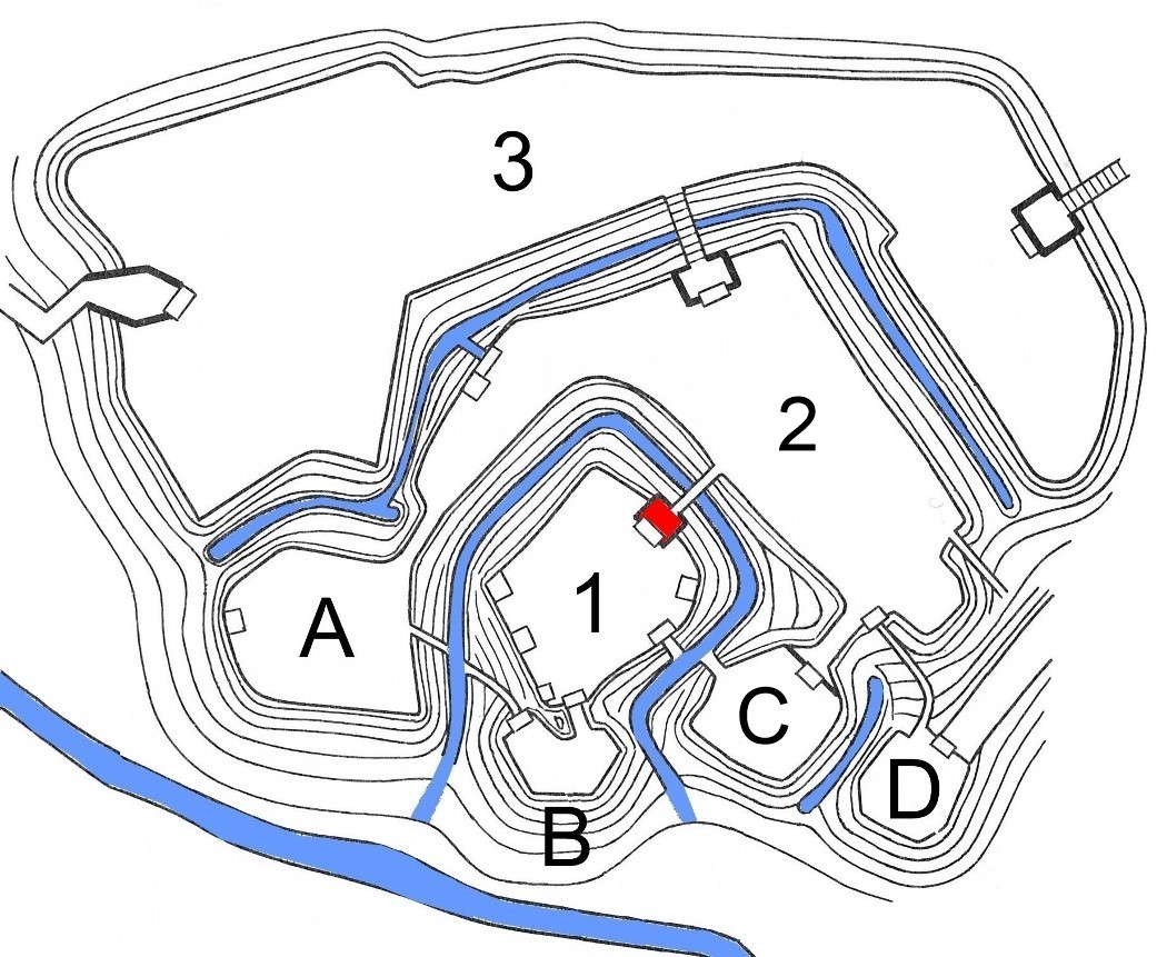 Map of Takato castle with explanations